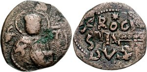 Italy, Kingdom of di Sicily, Ruggero Borsa. Duke of Apulia, 1085-1111. . Salerno mint. Æ Follaro (5.95 g, 9h)